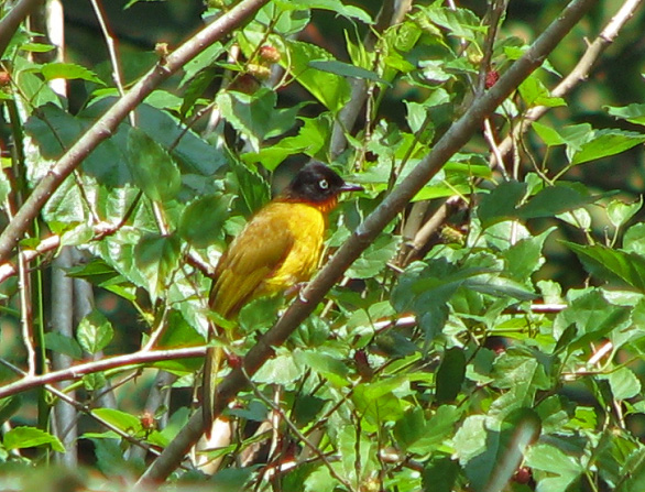 Flame-throated Bulbul (Pycnonotus gularis) in Karnataka, India.